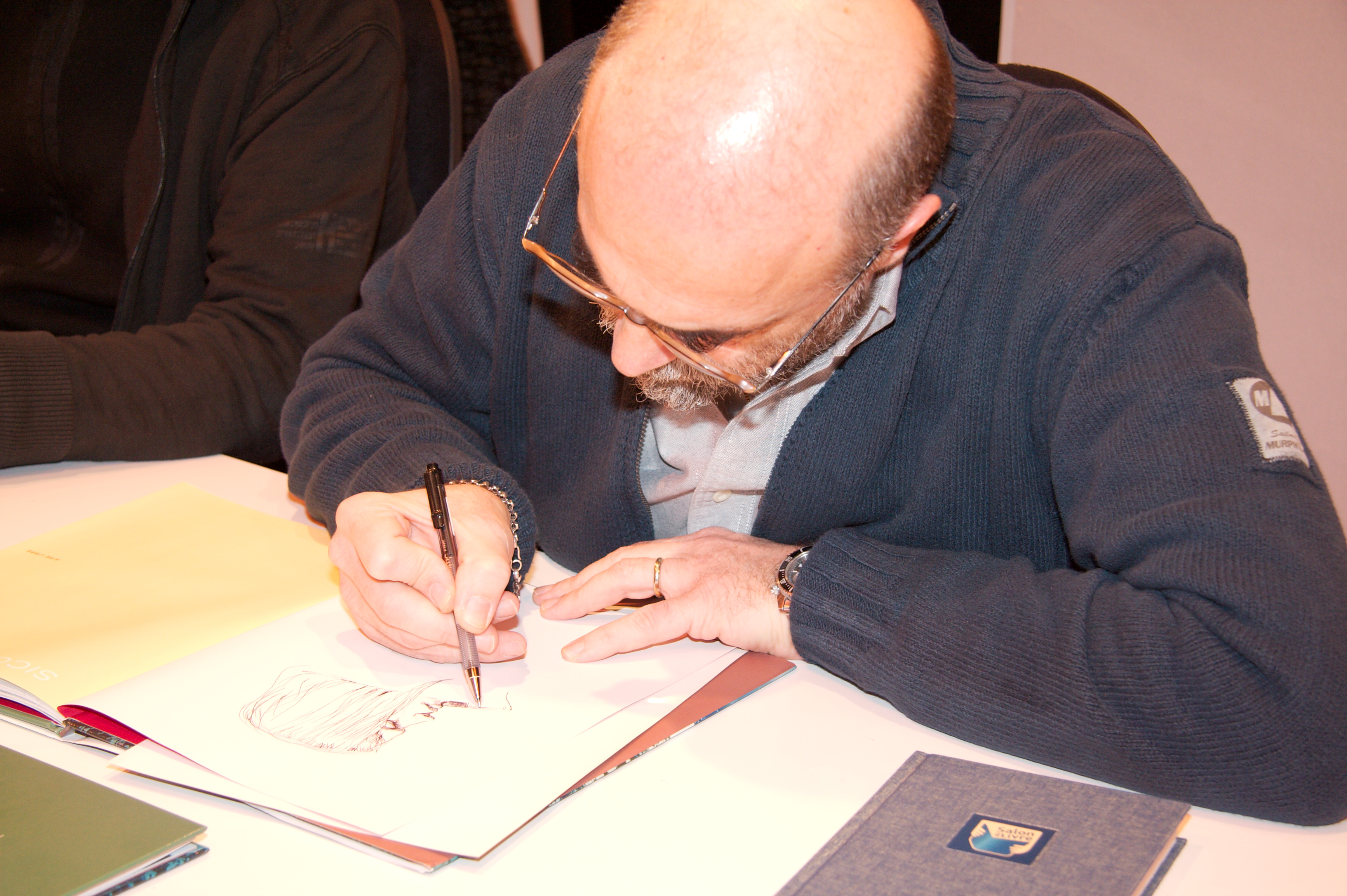 Autograph session with Eugenio Sicomoro at Salon du livre 2008 (Paris, France).